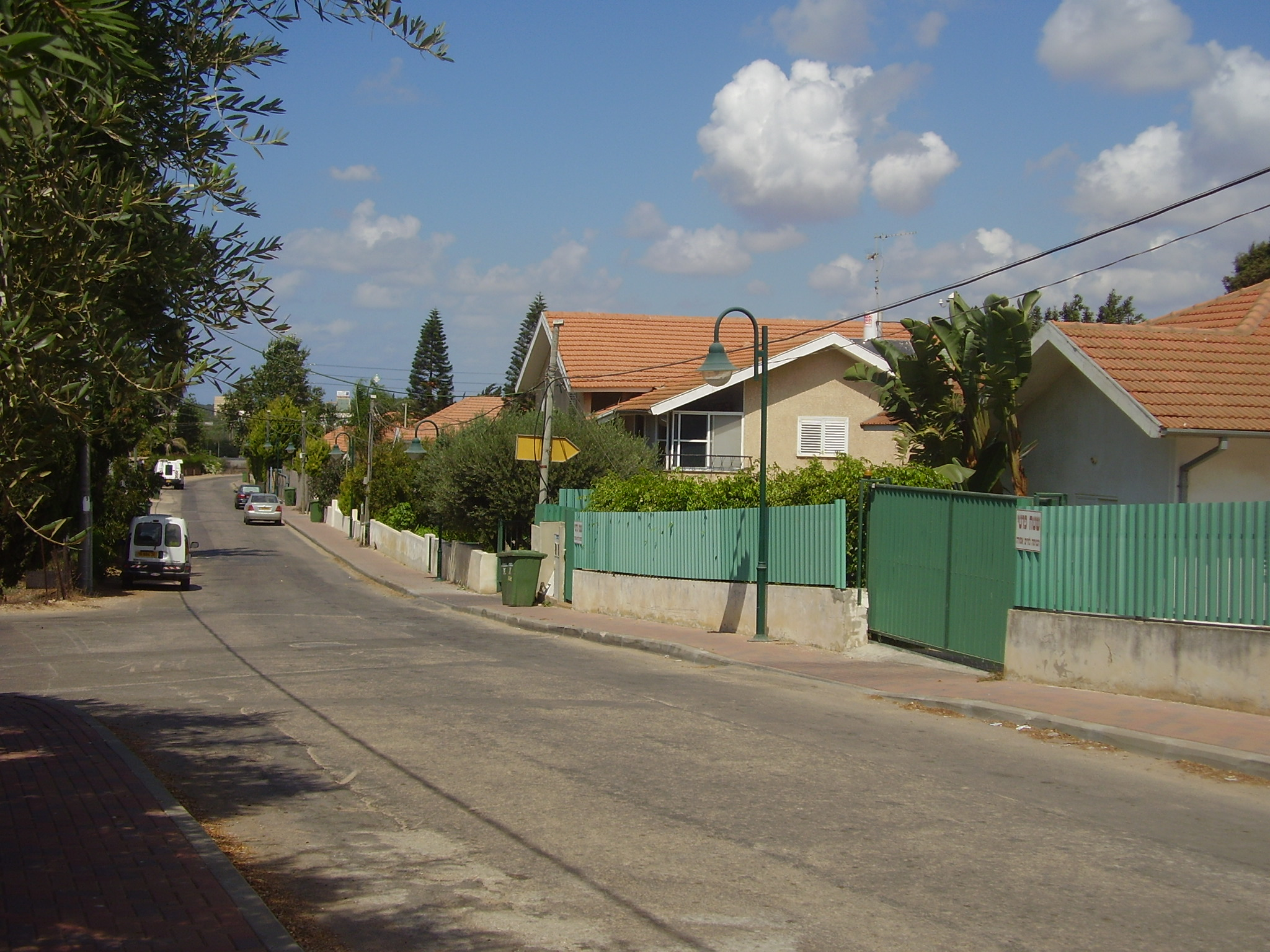 the main street - haMeyasdim street, in Moshav Ge'ule Teman in Israel